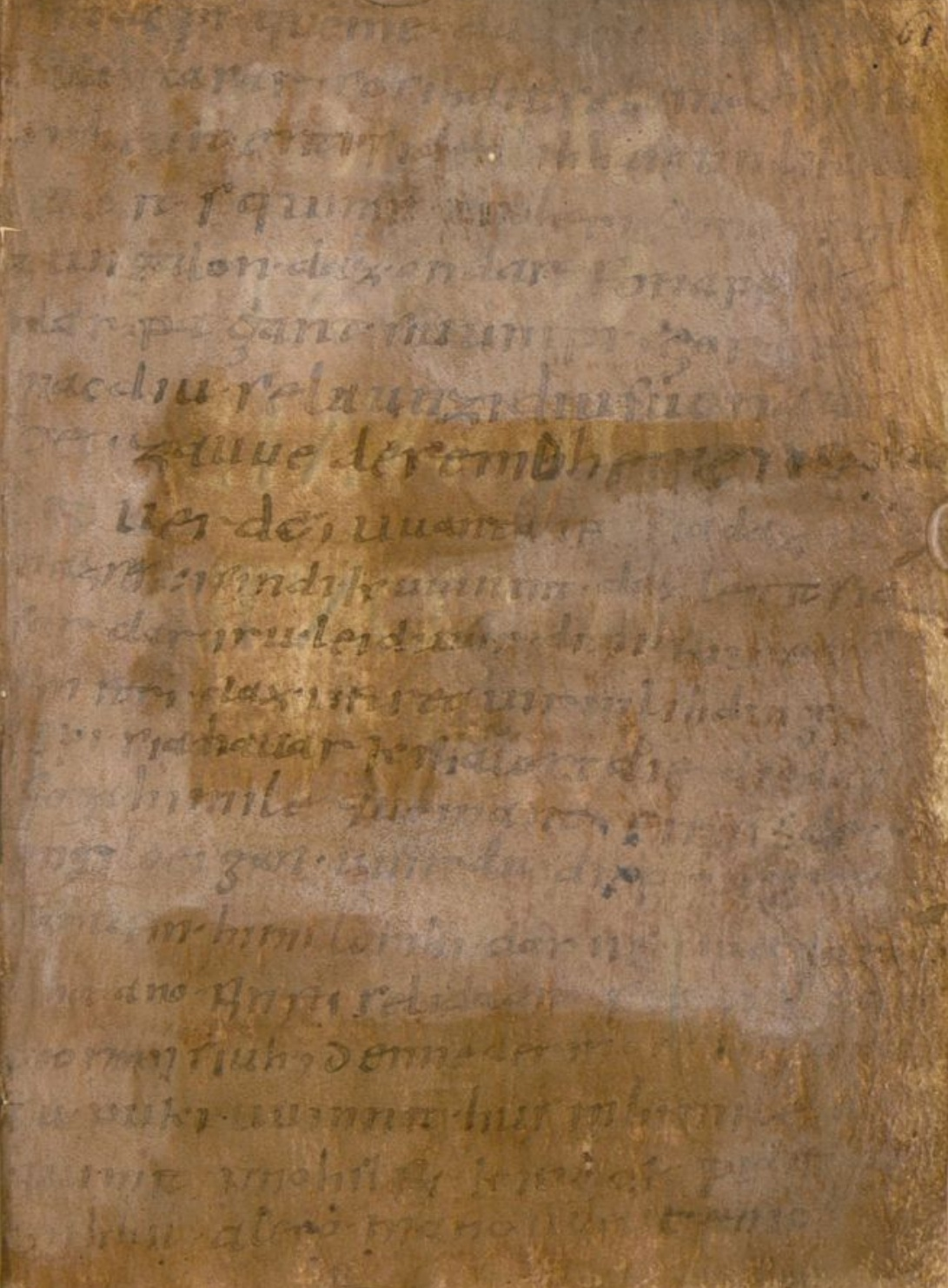 BSB Clm 14098, f. 61r - Muspilli page 1